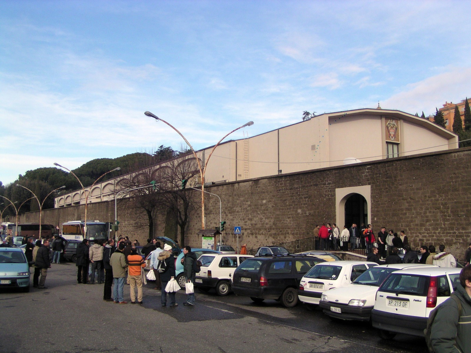 Centro Mariapoli of the Focolare Movement in Castel Gandolfo, Italy. The building is within the extraterritorial area of the Papal summer residence.